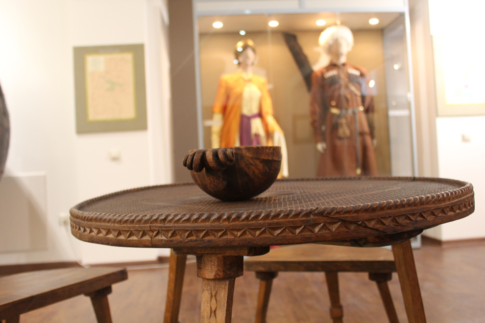 Музей древностей Алании